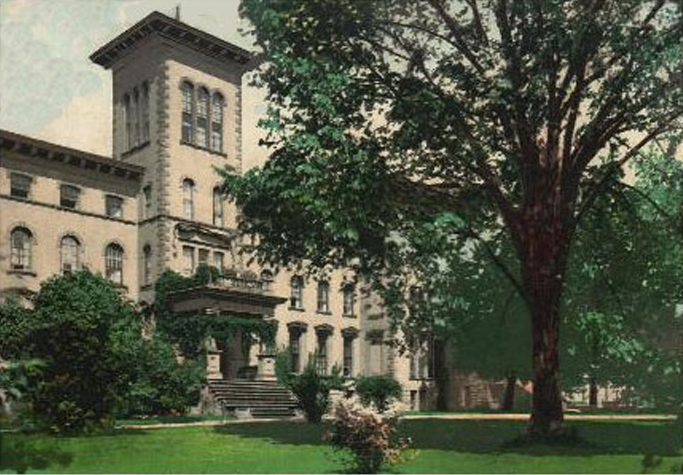 Syracuse State Idiot Asylum on Wilbur Avenue circa 1906